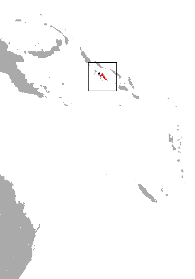 New Georgian Monkey-faced Bat (Pteralopex taki) range (red — extant, black — extinct)